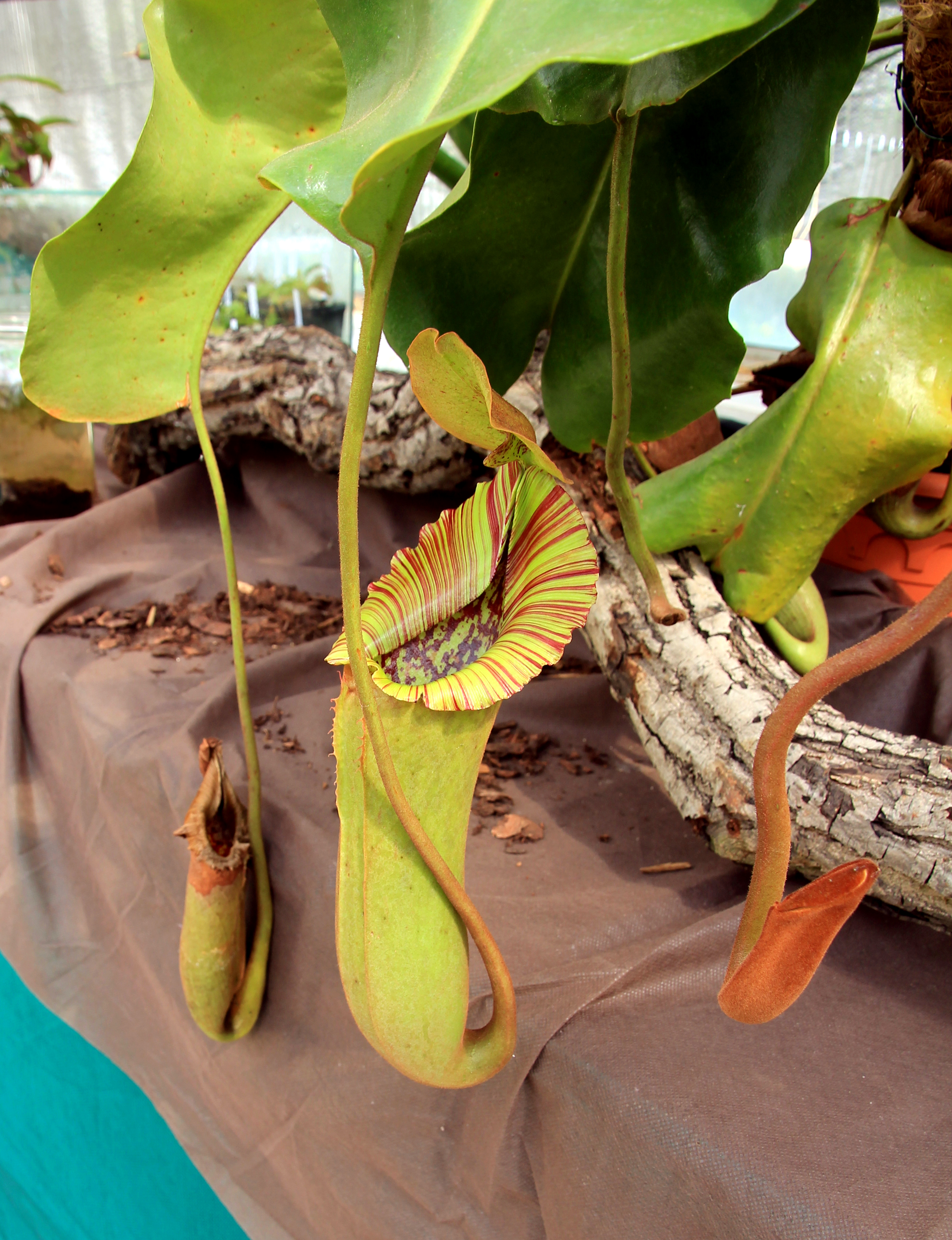 Part of plant Nepenthes truncata on Exhibition of Carnivorous plants in the Botanical Gardens of Charles University, 10. - 19.06.2016 Prague, Czech Republic